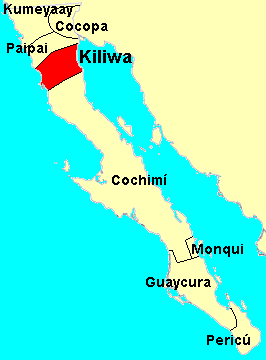 location map created by article's author